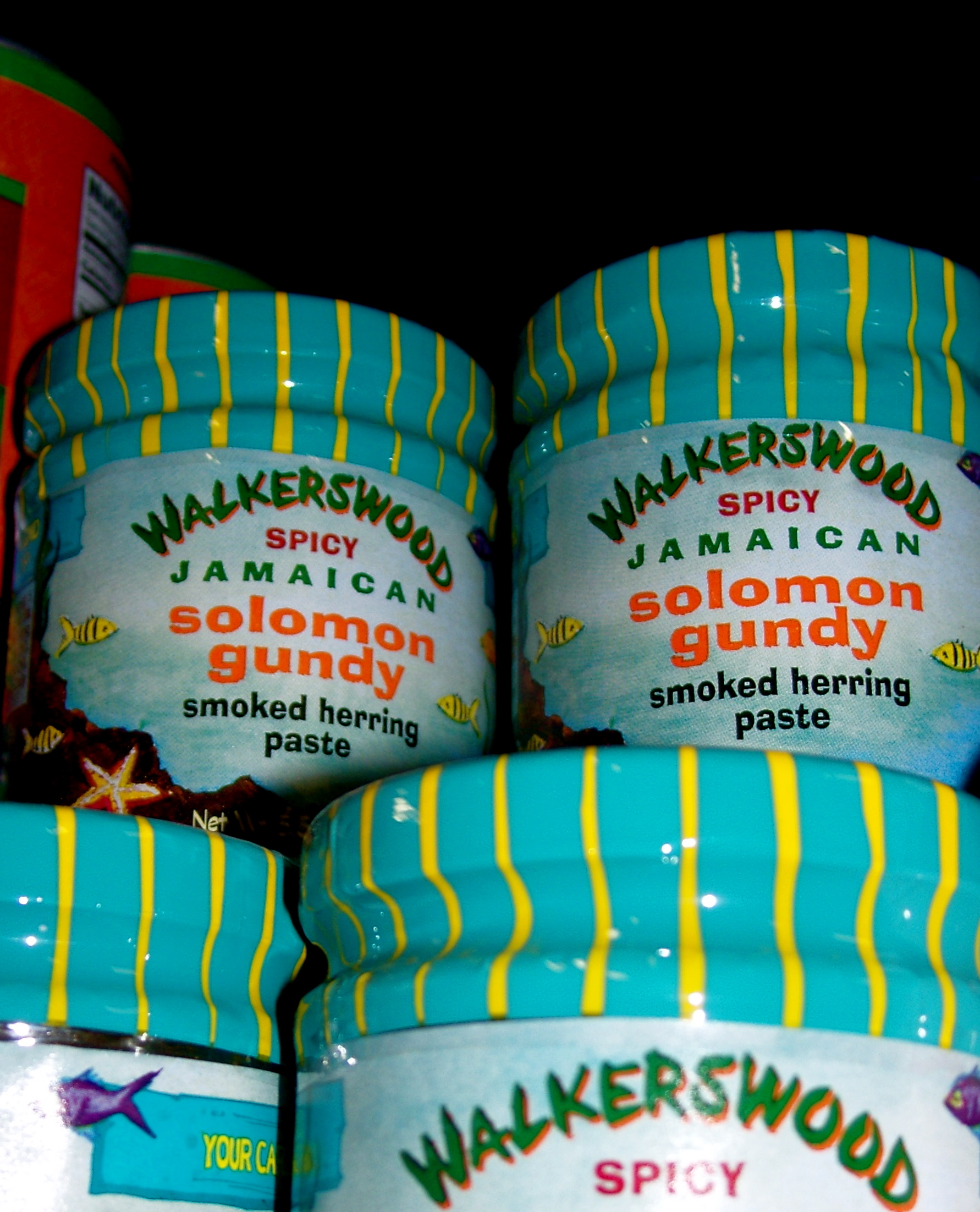 Walkerswood Solomon Gundy smoked herring paste jars, photo by hmmlargeart (Flickr) attribution required